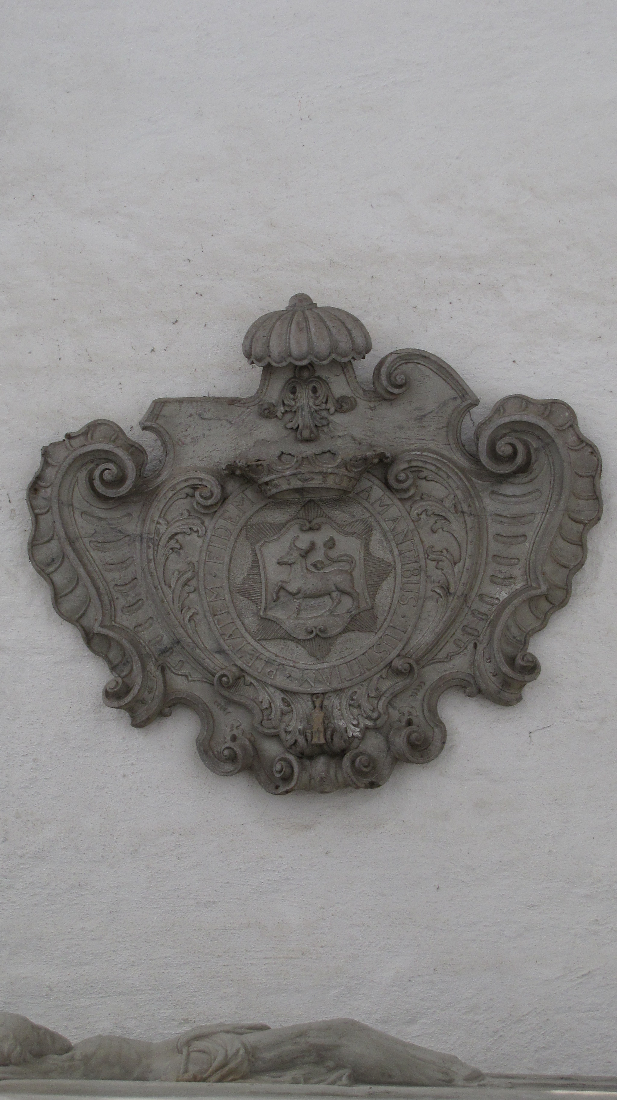 Coat of Arms of Plessen family in Lübeck cathedral; probably part of grave of Jacob Levin von Plessen (1701-1761) or Louise von Plessen